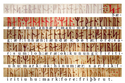 Transliteration of fol. 27r, line 3-8 of the Codex Runicus, based on description by The Arnamagnæan Institute, Faculty of Humanities, University of Copenhagen. The author of the original work died more than 100 years ago.